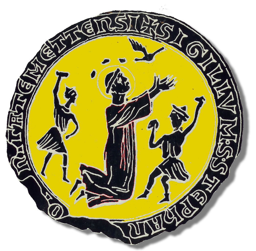 First seal of the city of Metz.